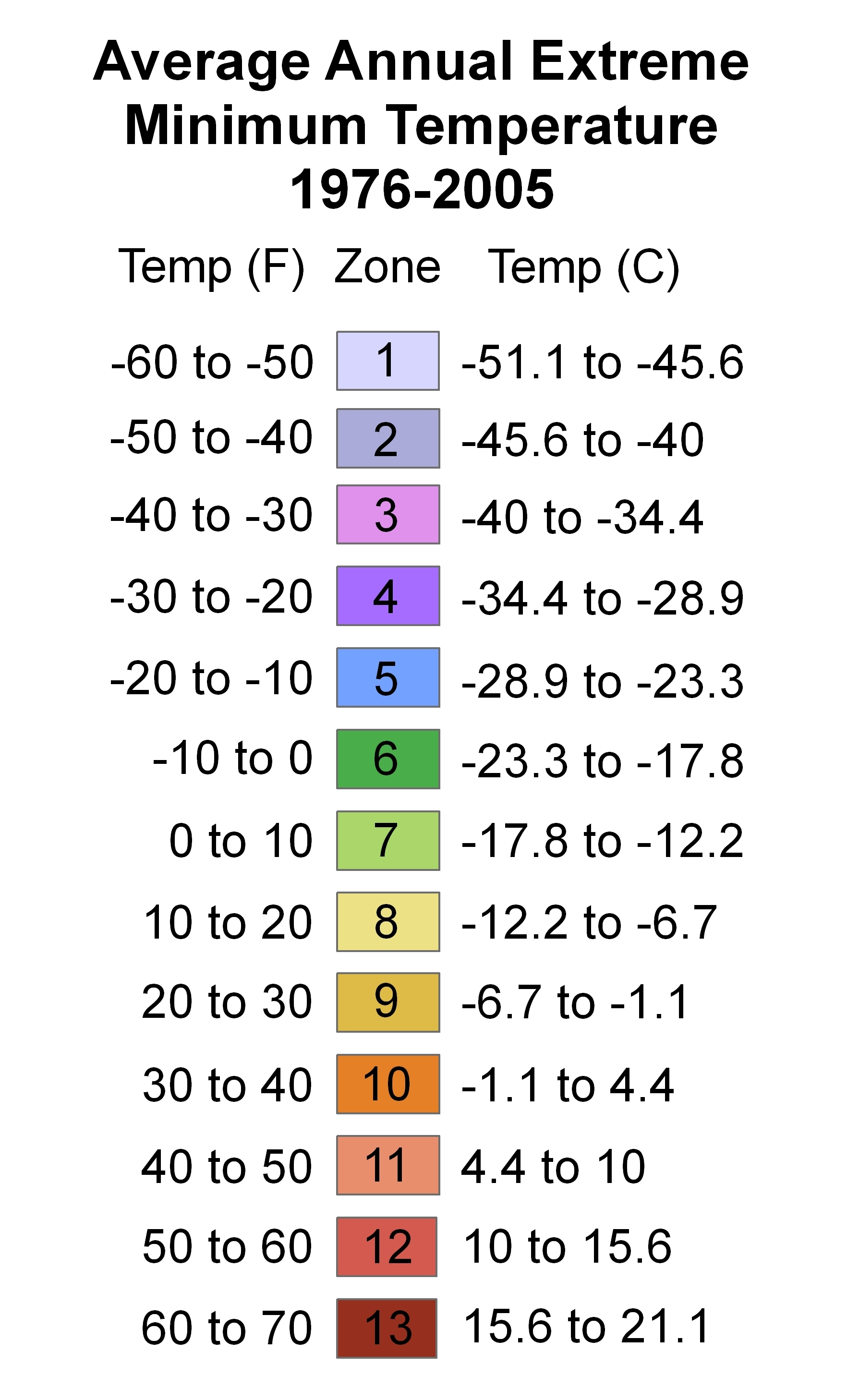 USDA Hardiness zone scale, 2015 version (first published 2012).